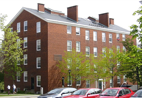 Soule Hall front